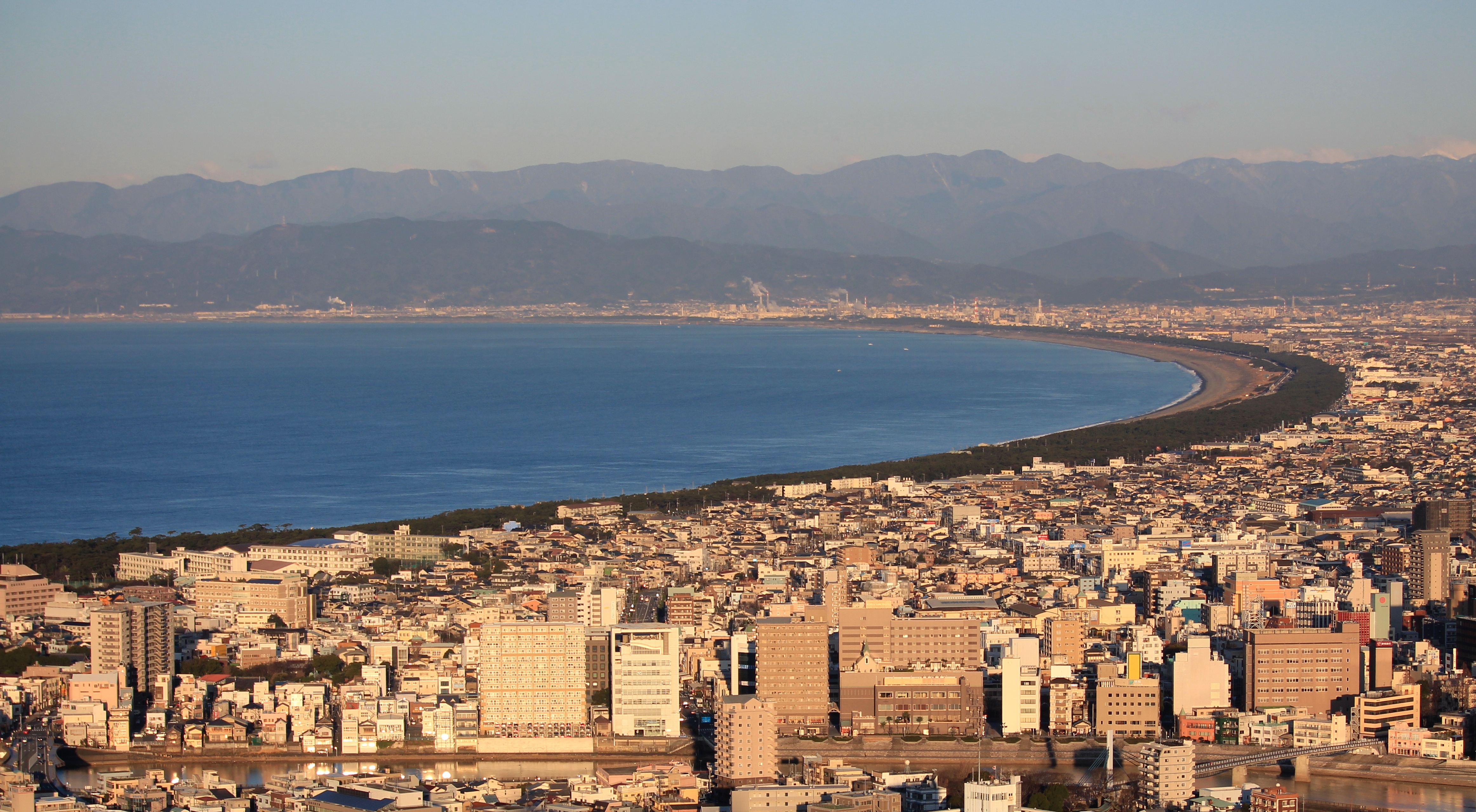 Suruga Bay and Senbonmatsubara (Pinus forest) seen from Mount Kanuki in Numazu Shizuoka prefecture, Japan.